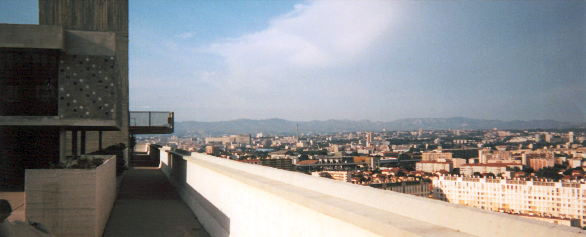 l'unité d'habitation, marseille, rooftop terrace. architect: le corbusier, 1945. scan of a photo from a panoramic disposable camera.